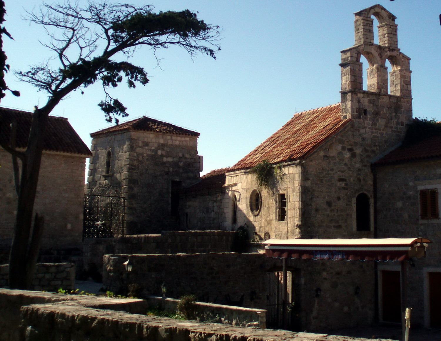 Church of St. Maria in Punta (Budva)